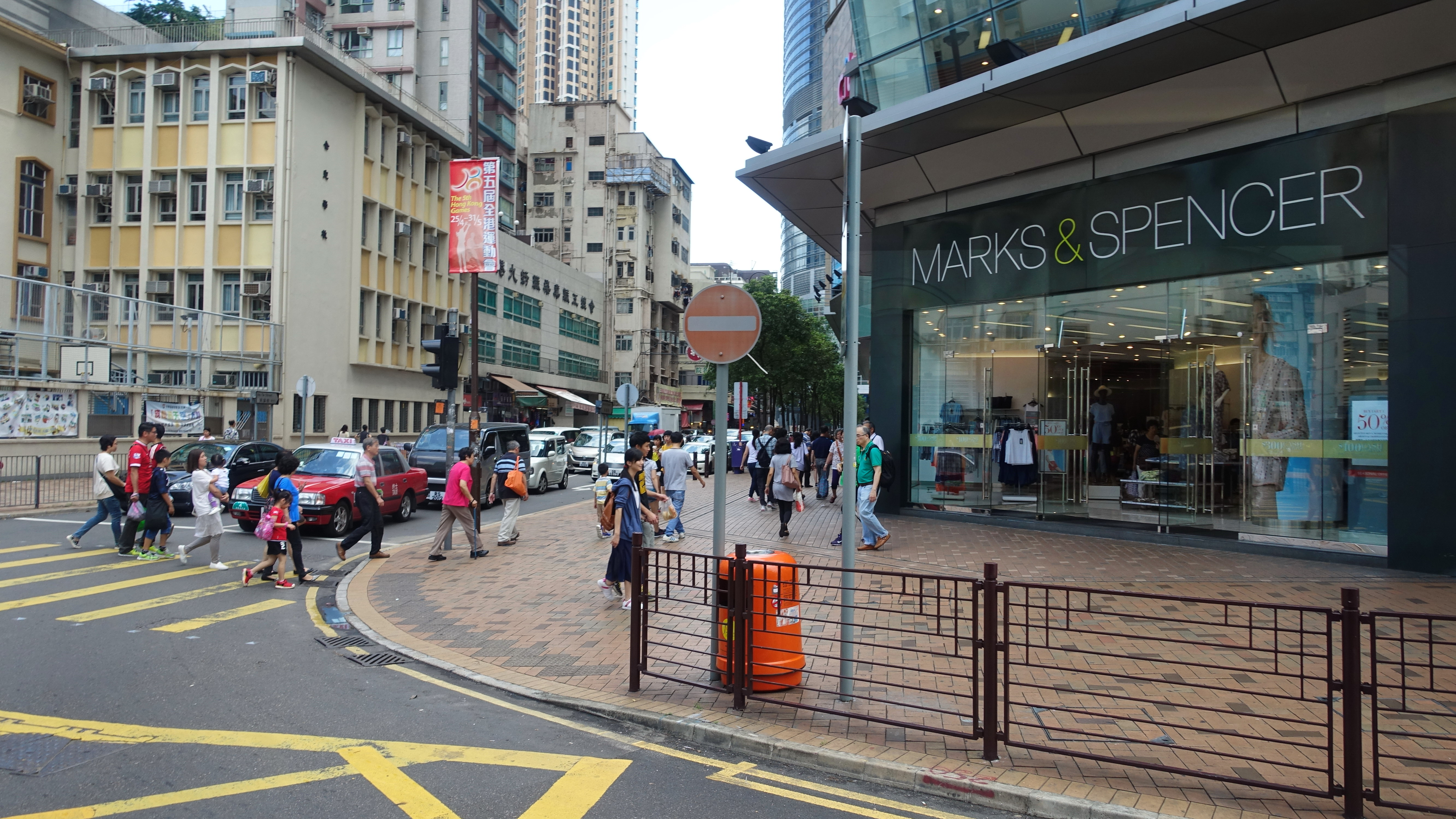 Marks and Spencer at Citywalk, Tsuen Wan, Hong Kong.